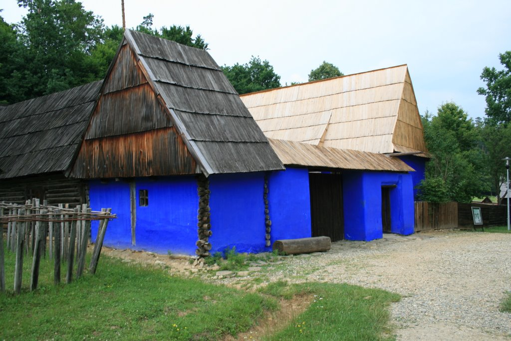 encercled shepherd's farmstead from Poiana Sibiului with workshop for processing wool, in the ASTRA open-air museum, Sibiu (built in 1854)